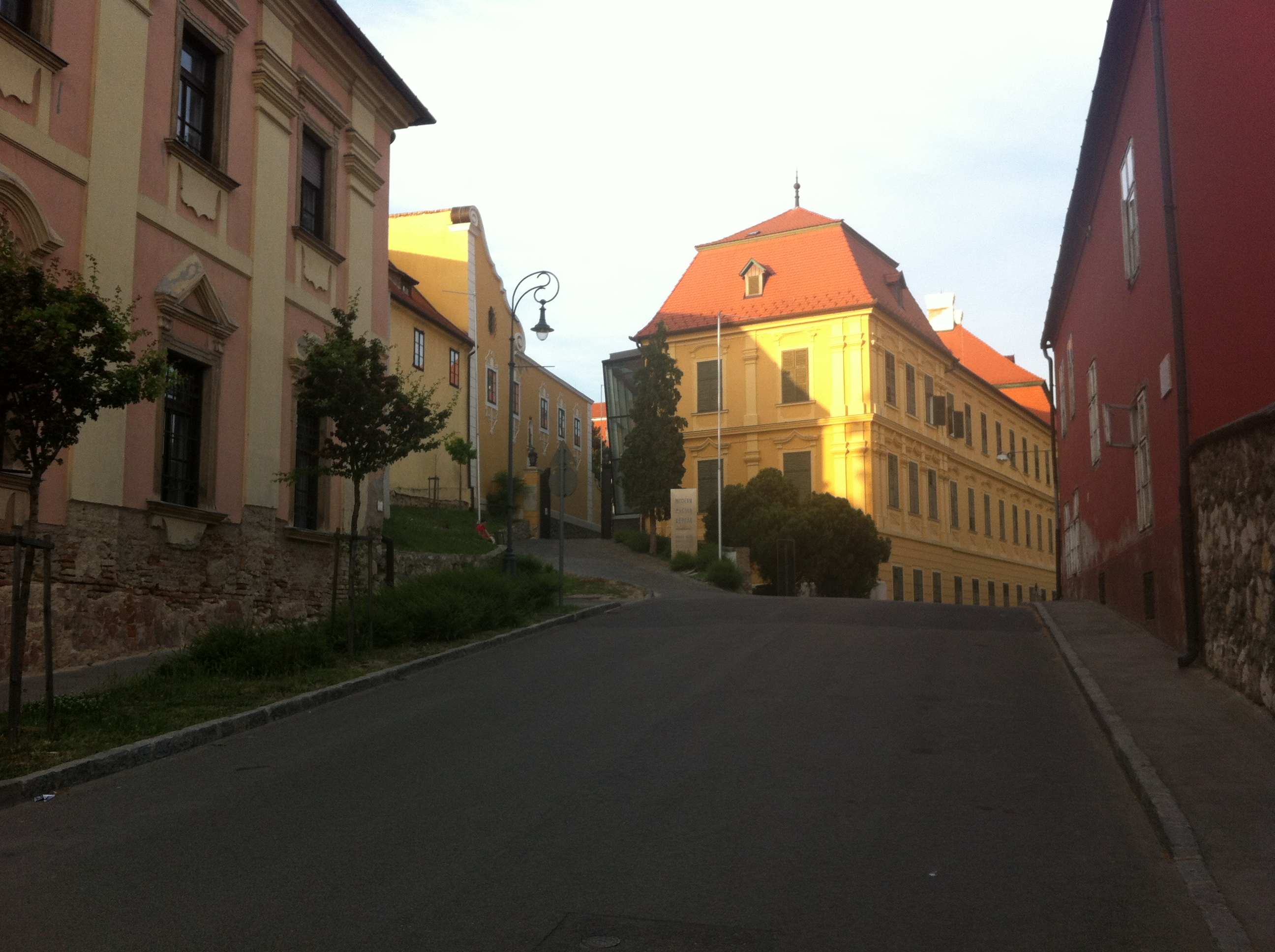 The building of Modern Hungarian Gallery in Pecs, Hungary, 13 May 2015.